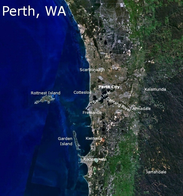 Landsat 7 satellite photograph of Perth, Western Australia. Source: Public domain Landsat 7 image, retreived via World Wind. Annotation added by Wangi based on earlier work by Mark Ryan.